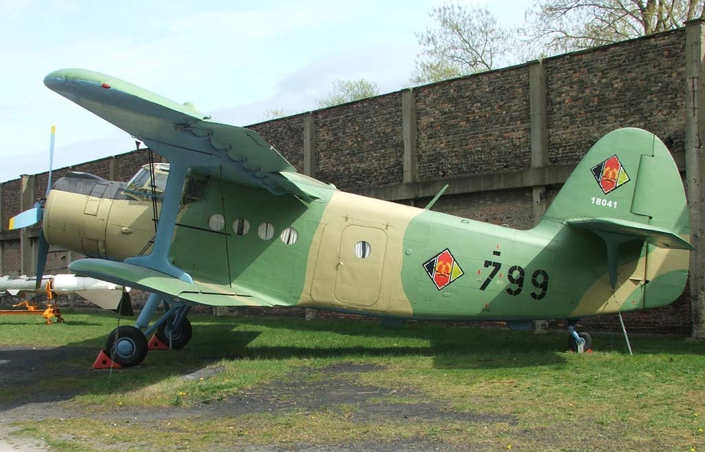 Antonov An-2 Colt - Peenemünde Museum - Peenemünde.